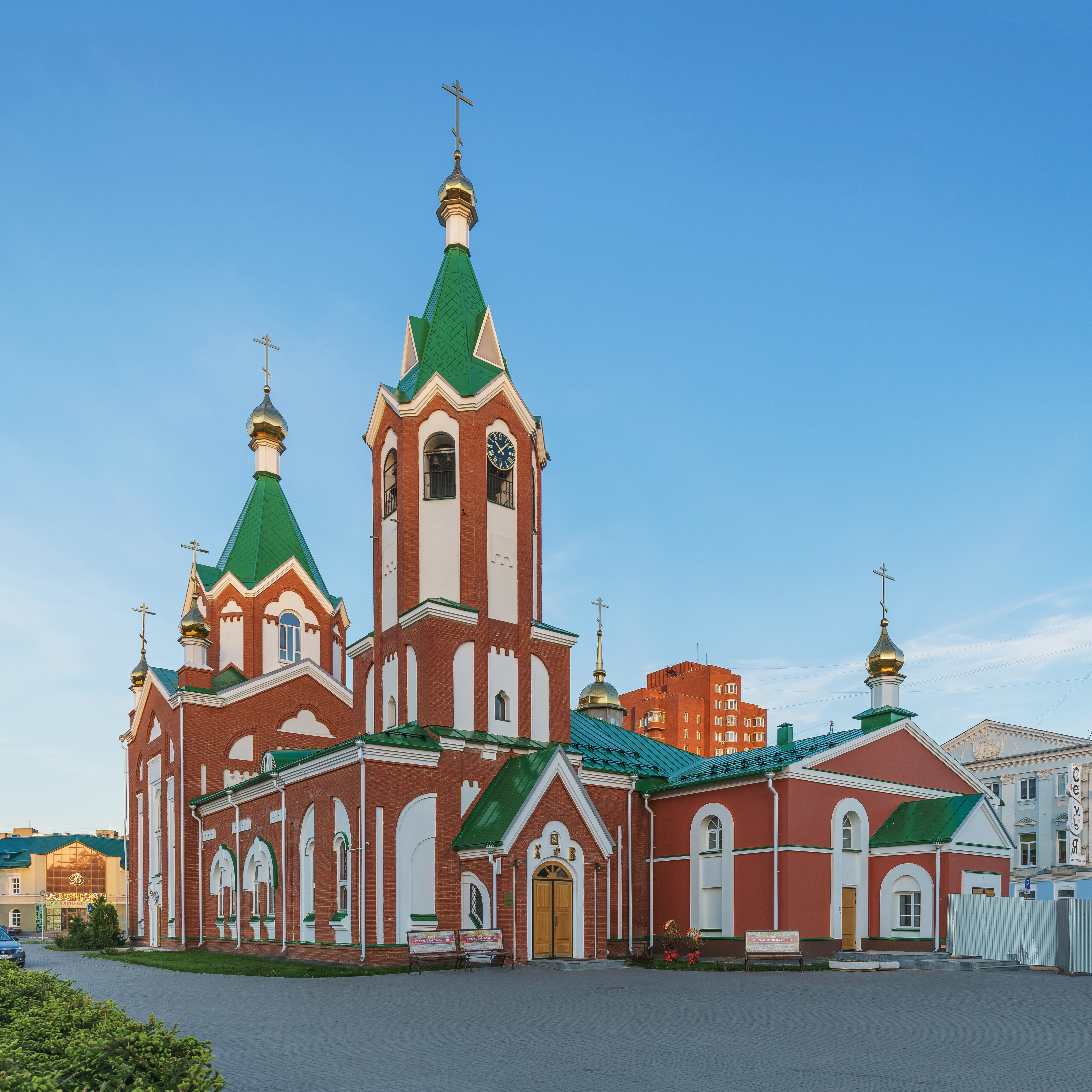 Transfiguration Cathedral (2000s replica) in Glazov, Udmurtia, Russia